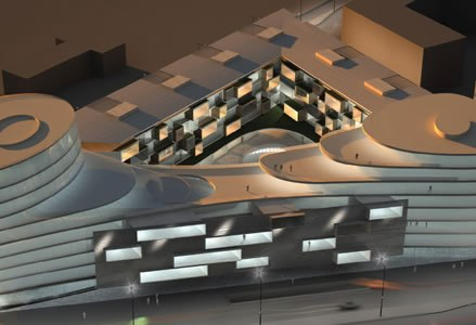 My project